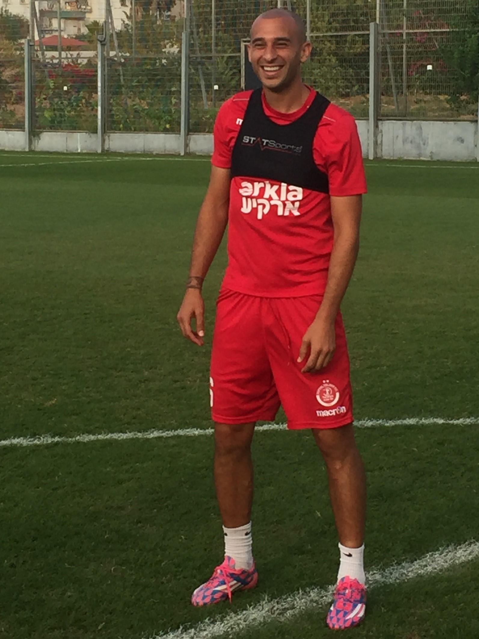 Hapoel Tel Aviv FC Player Omer Damari, October 2018